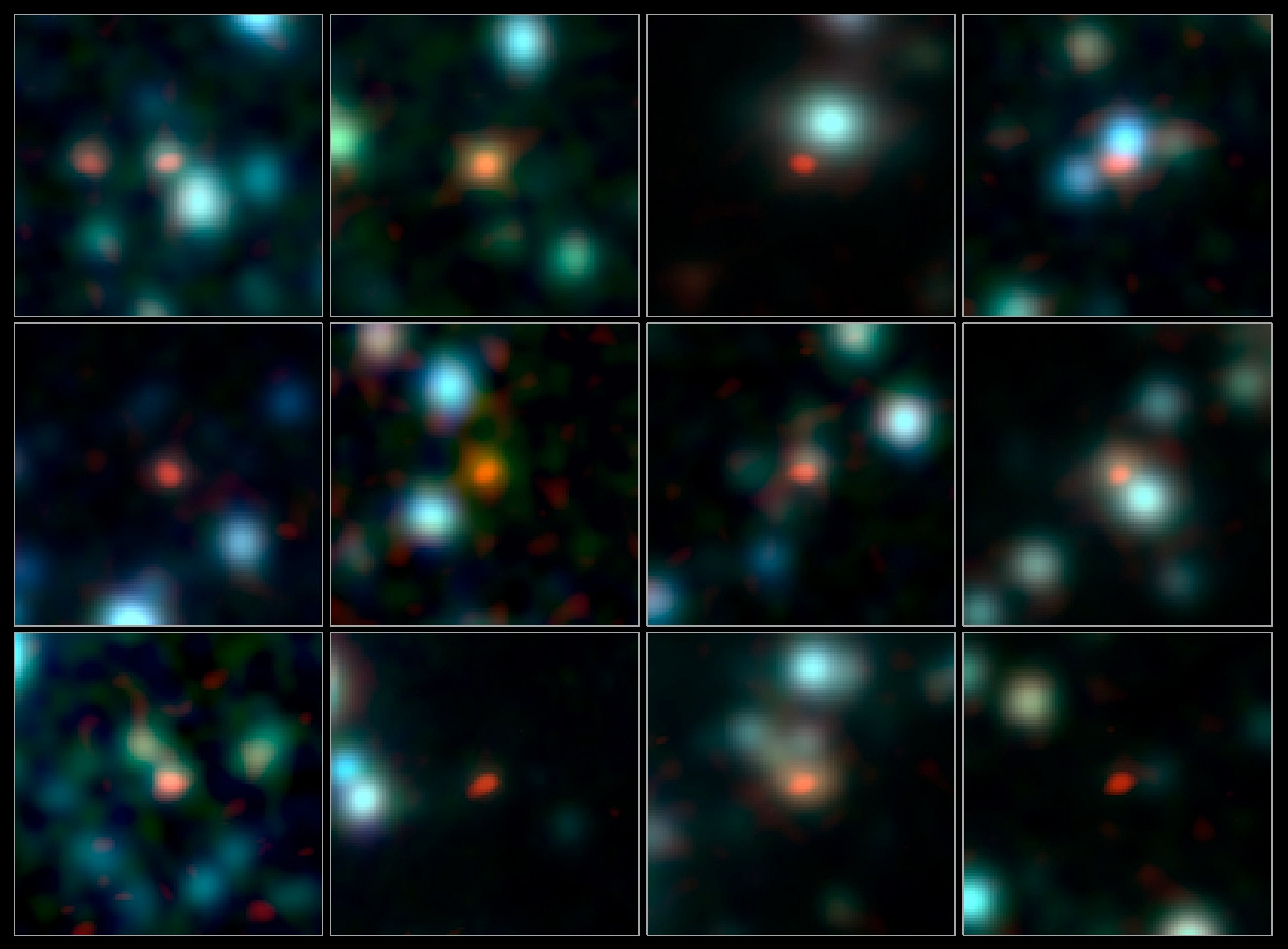 A team of astronomers has used ALMA (the Atacama Large Millimeter/submillimeter Array) to pinpoint the locations of over 100 of the most fertile star-forming galaxies in the early Universe. This image shows close-ups of a selection of these galaxies. The ALMA observations, at submillimetre wavelengths, are shown in orange/red and are overlaid on an infrared view of the region as seen by the IRAC camera on the Spitzer Space Telescope. The best map so far of these distant dusty galaxies was made using the Atacama Pathfinder Experiment (APEX), but the observations were not sharp enough to unambiguously identify these galaxies in images at other wavelengths. ALMA needed just two minutes per galaxy to pinpoint each one within a comparatively tiny region 200 times smaller than the broad APEX blobs, and with three times the sensitivity.